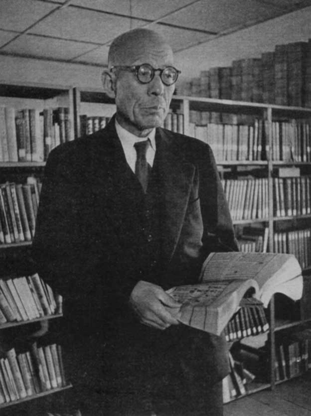 Hisayasu Tsuchiya.